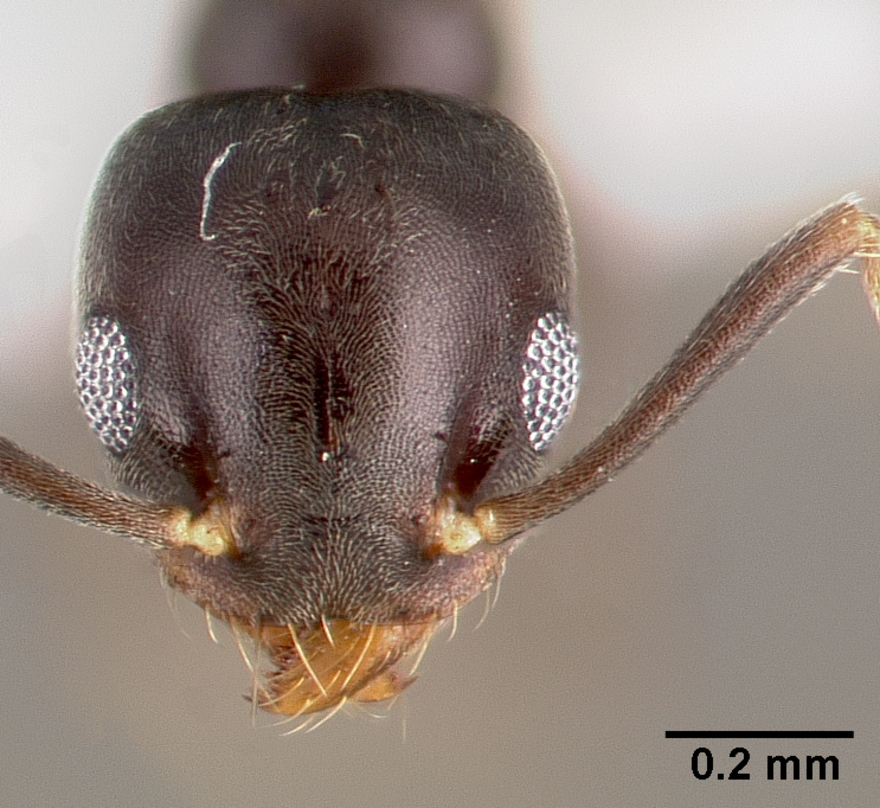 Head view of ant Technomyrmex difficilis specimen casent0003318.